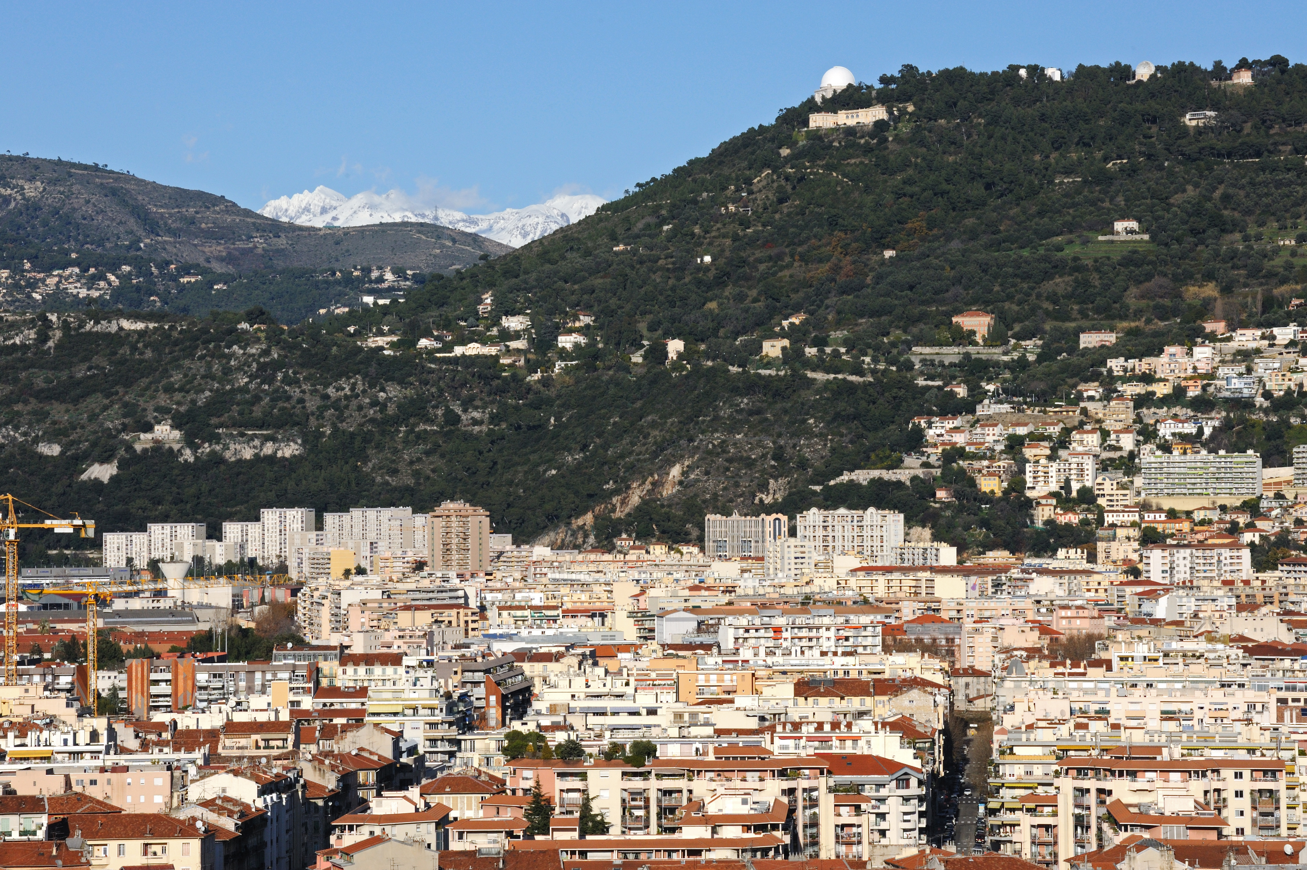 Nice seen from the Castle Hill: eastern neighbourhoods, Mont-Gros, the observatory, and the Alps.